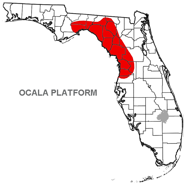 Depiction of the Ocala Platform or Ocala Uplift based on a map from the USGS.